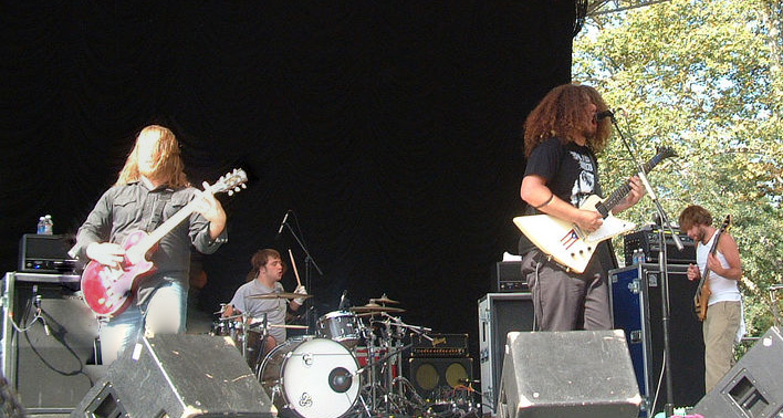 Coheed and Cambria live at NYC Central park in 2005